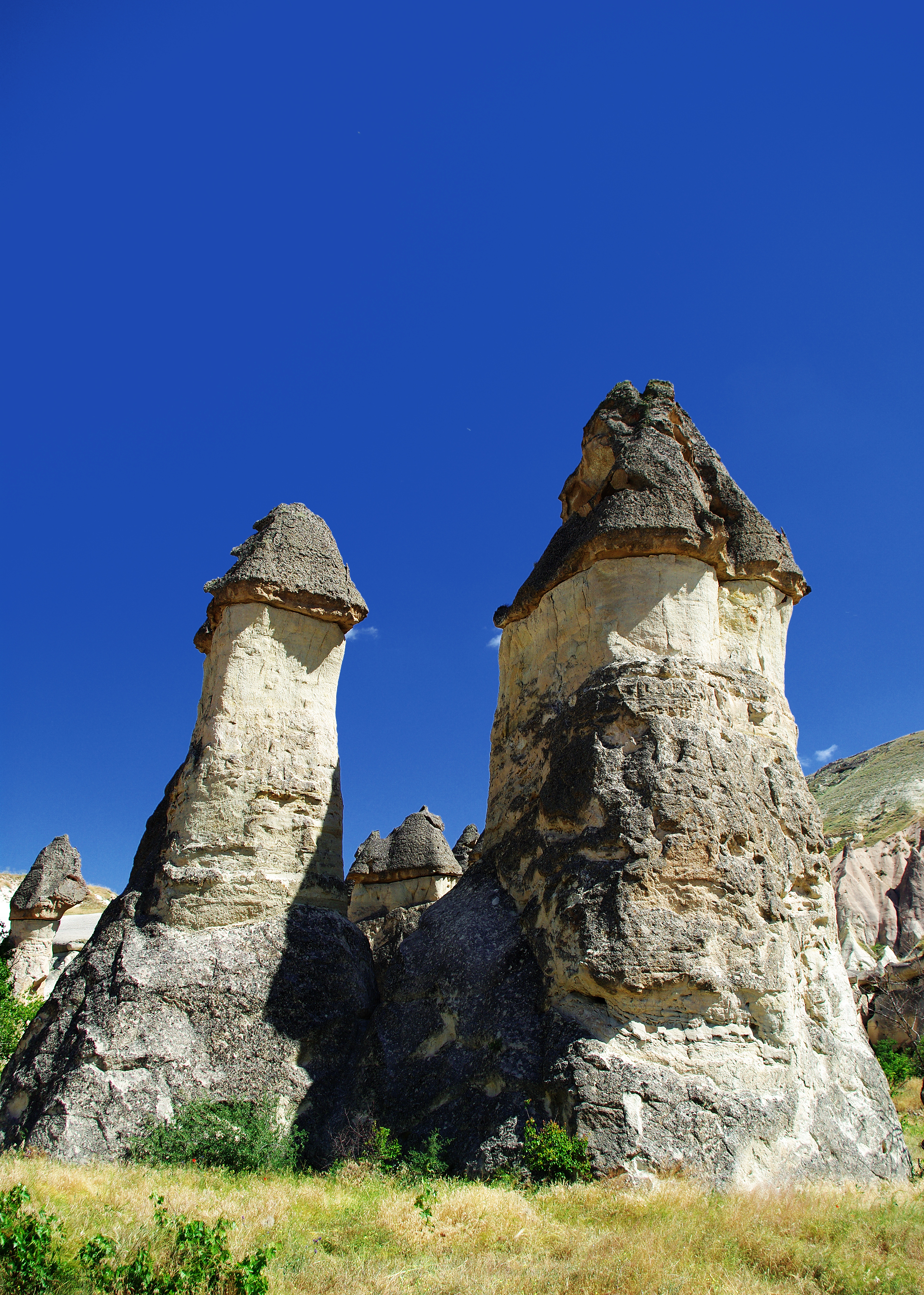 View of two fairy chimneys in Cappadocia. Nevşehir - Turkey.